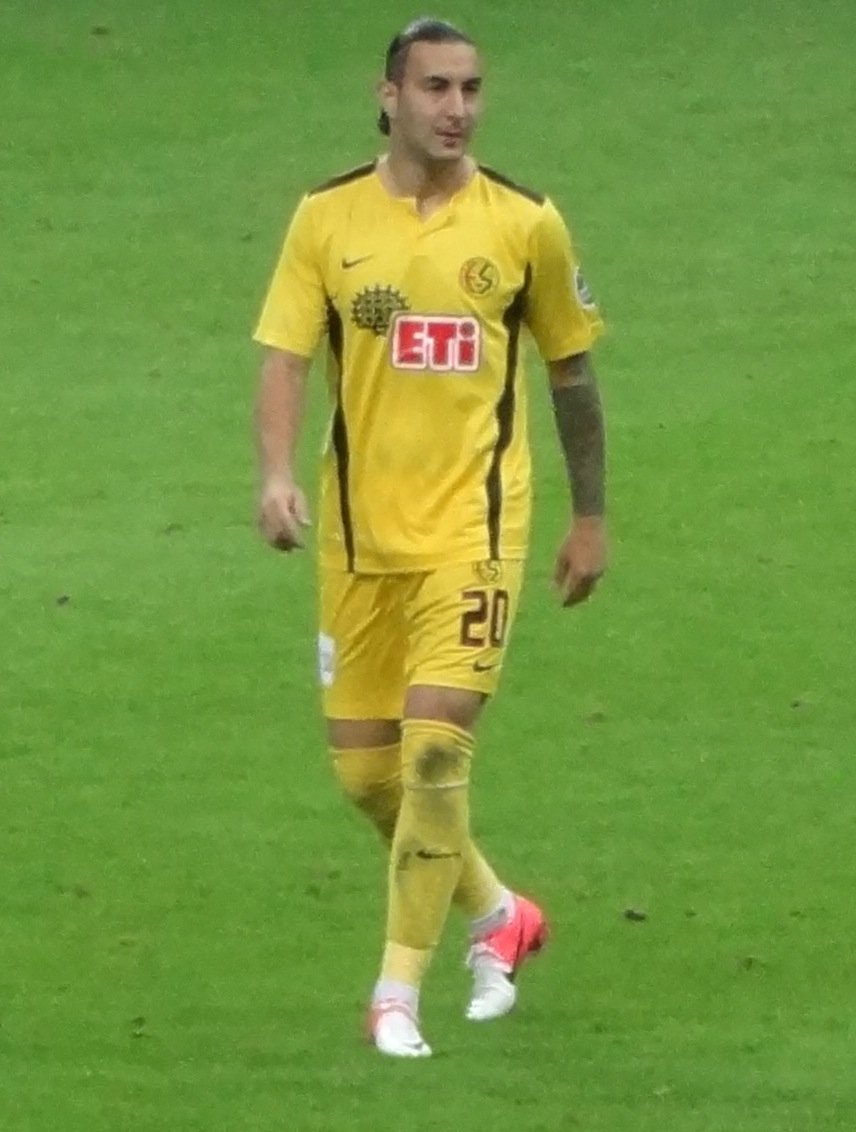 Necati with ES-ES kit